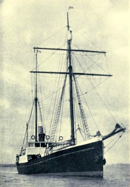 The “Quest”, unloaded.